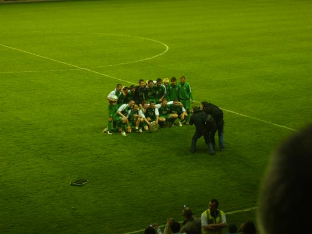 Hibs players are presented with the East of Scotland Shield after beating Hearts, May 7, 2008